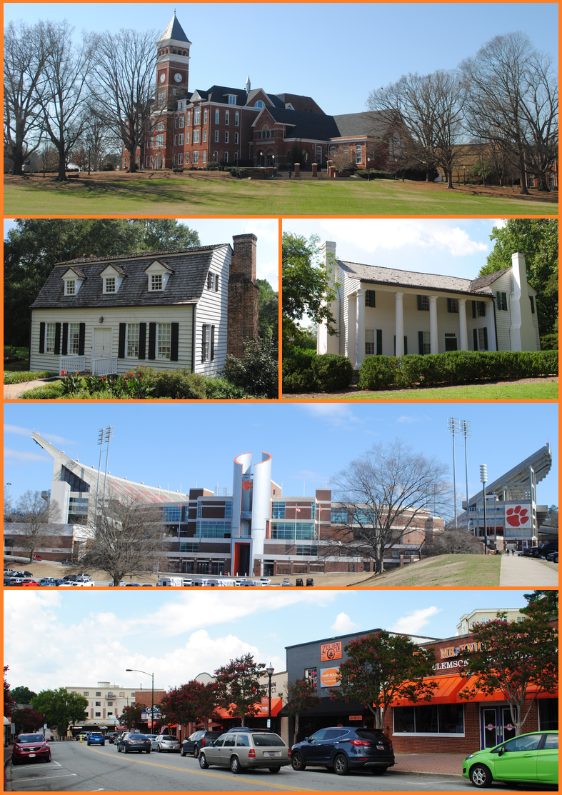 Photos I took around Clemson and placed into a montage.